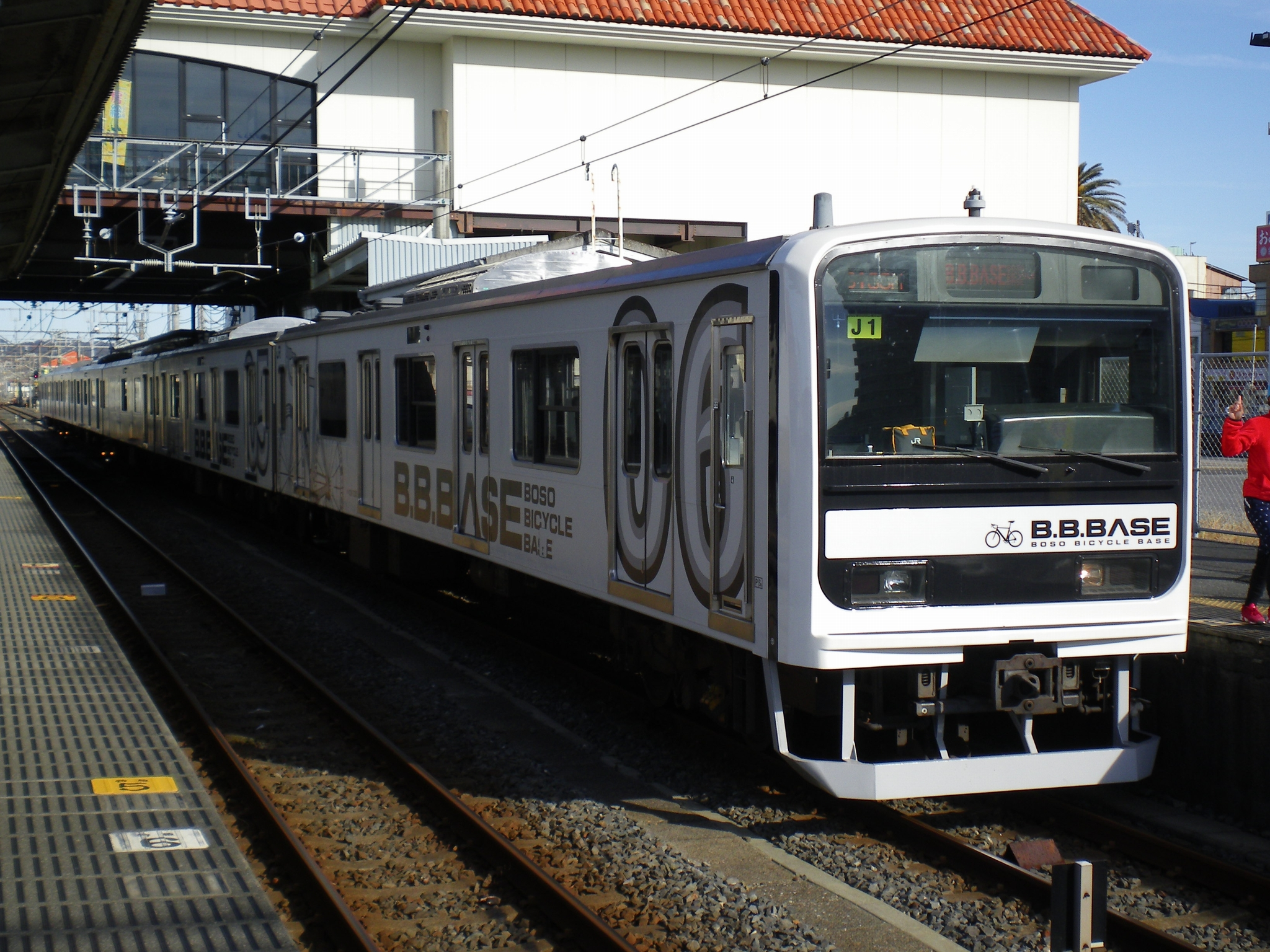 The East Japan Railway Company (JR East) 209-2200 series "Boso Bicycle Base" EMU set J1 at Tateyama Station in Chiba Prefecture, Japan